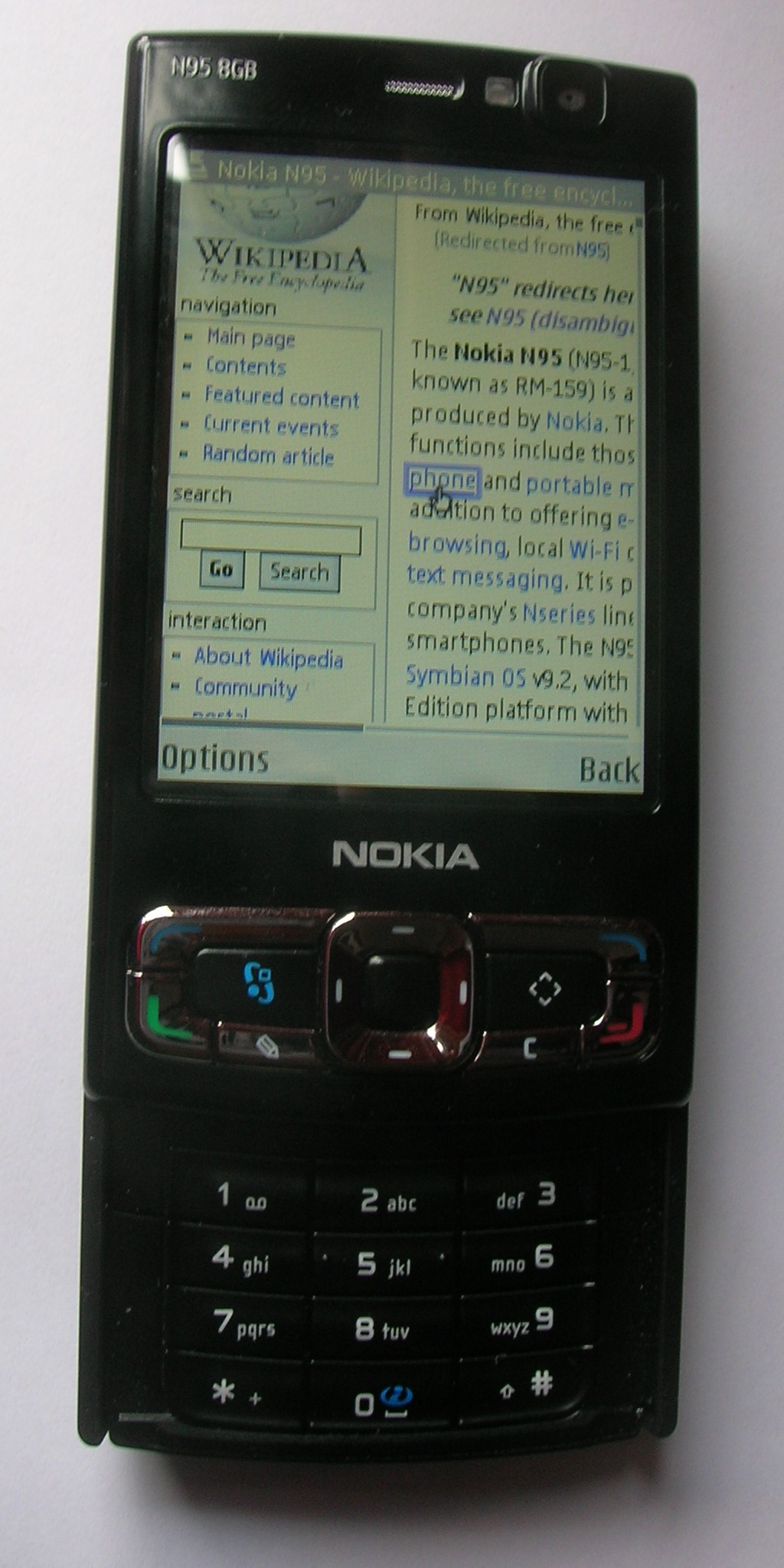 Nokia N95 8GB UK mobile phone displaying Nokia N95 web page on Wikipedia. View down onto the display with slide-out keypad visible.